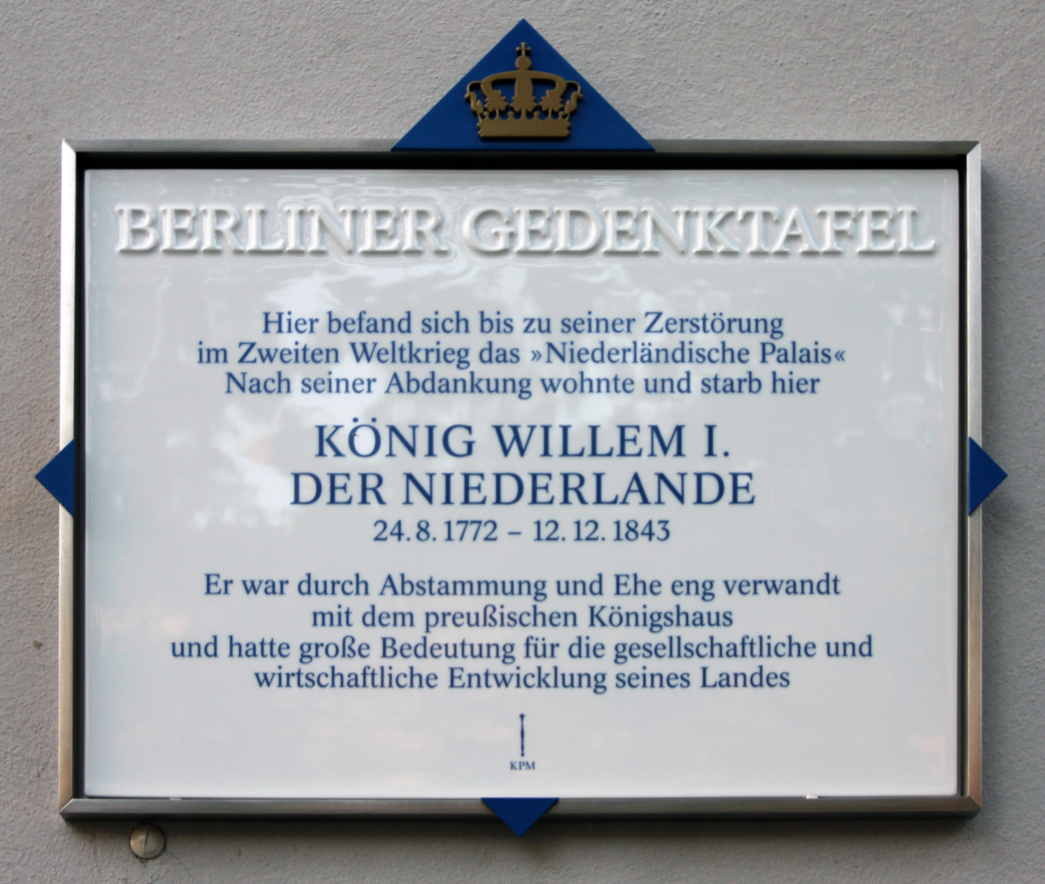 Berlin memorial plaque, William I of the Netherlands, Gedenktafel Unter den Linden 11, Berlin-Mitte, Germany